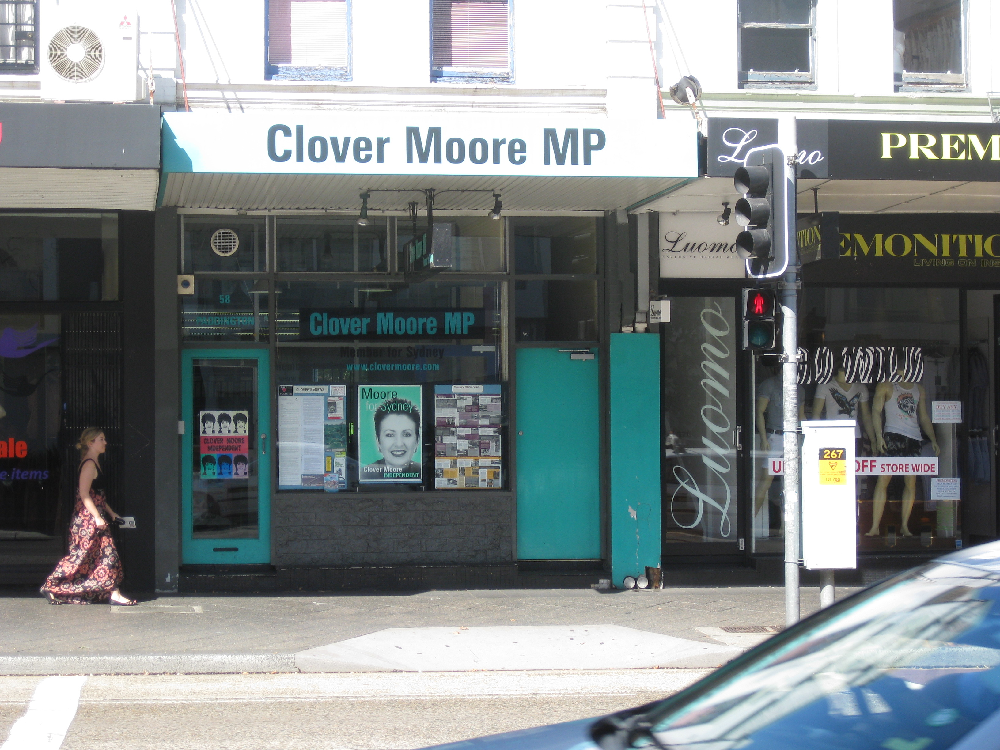 Clover Moore's electoral office on Oxford Street in Sydney. The office was located across the road from Berkelouw books.